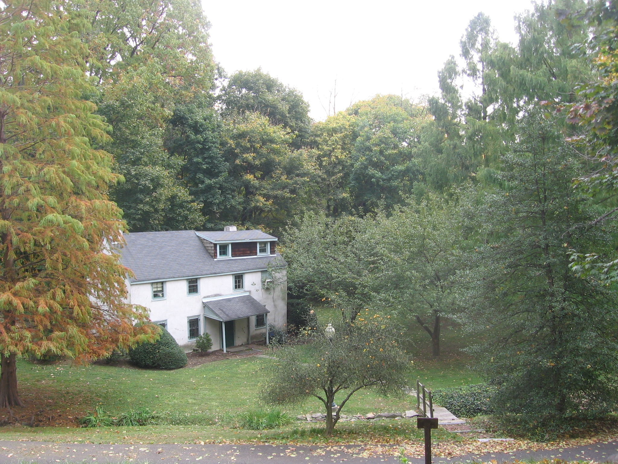 The Tenant House on Belfield Estate, also known as the "Japanese Tea Ceremony House".